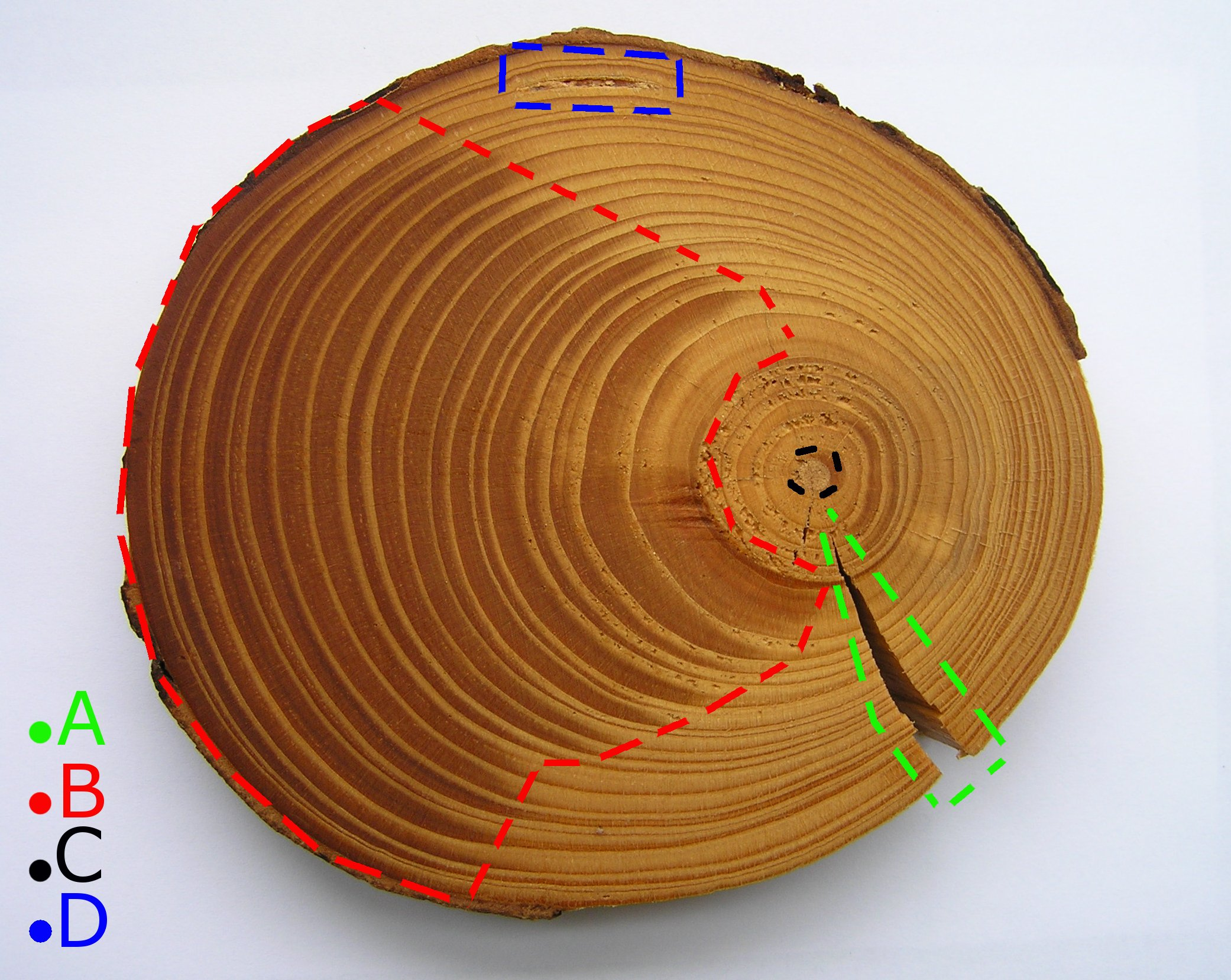 Cross cut of a spruce (Picea abies) with A: drying crack, B: reaction wood, C: pitch, D: resin pocket